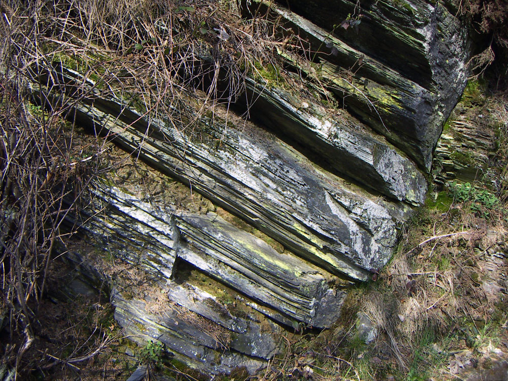 Road cut with exposure of whitish weathered (gypsiferous efflorescence?) and partially algae- or moss-covered slate of the Siegenian regional stage (Monschau Formation to lower Rurberg Formation transition), Pragian to Lower Emsian, early Lower Devonian, at federal road (B) 258 near village of Hargard (town of Monschau), northern Eifel Mts., North Rhine-Westphalia, Germany.